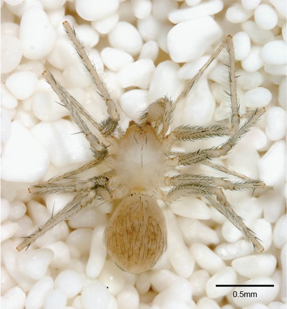 Adult male of Tayshaneta anopica (Gertsch, 1974). The specimen was captured in Cobb’s Cave, Williamson County, Texas.